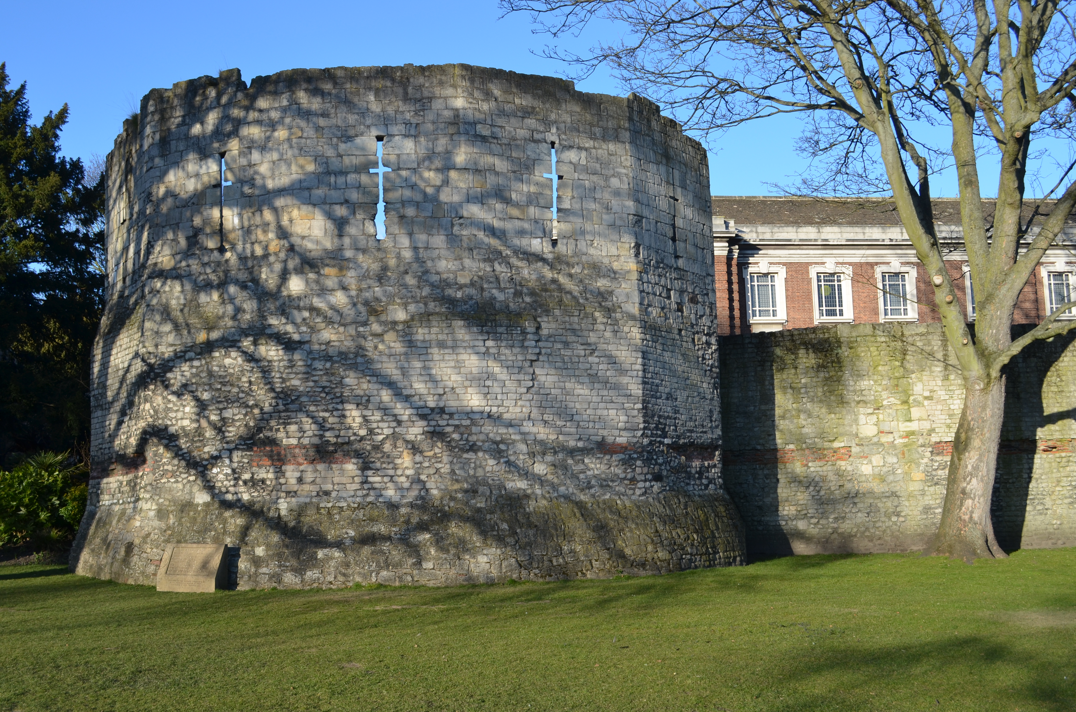 City Wall from Multangular Tower to Rear of Number 8 St Leonards Place